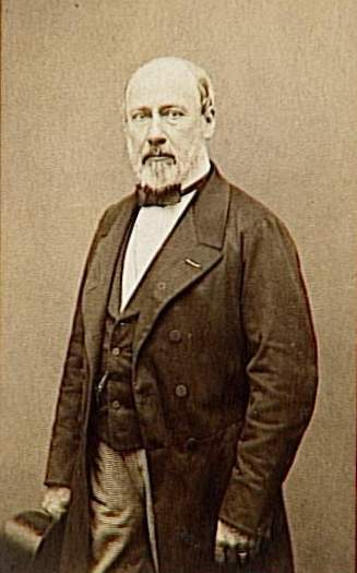 photography of the English painter (aquarellist), William Wyld (1806-1886) by Etiennne Carjat about 1865. Property of the RMN (Musée d'Orsay, Paris, France)__Hervé_Lewandowski